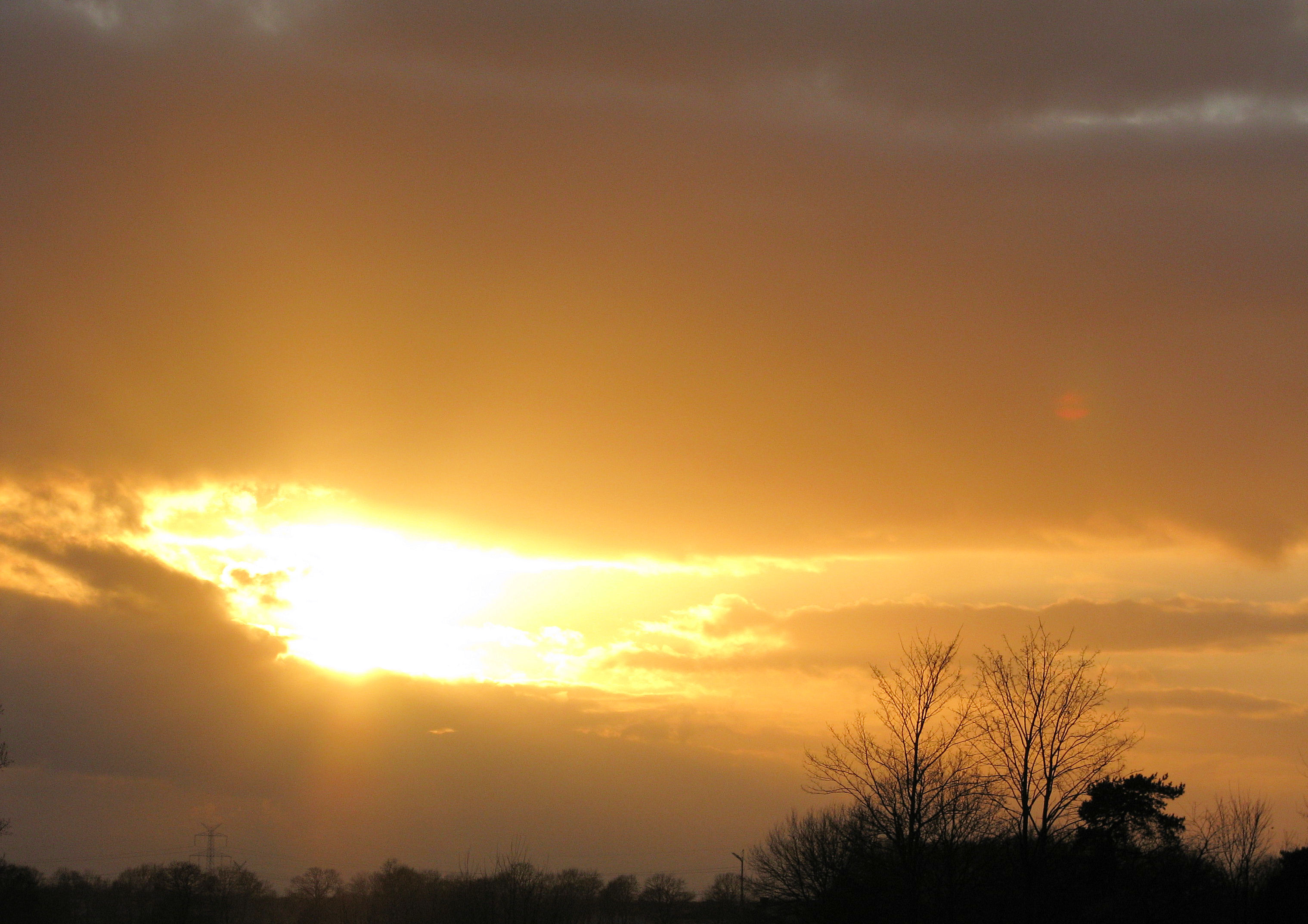 Sunset